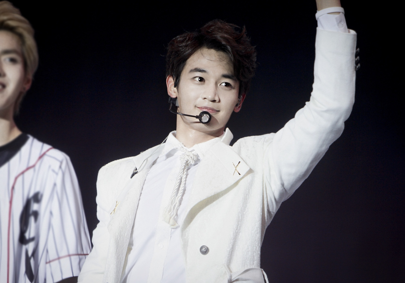 Minho at the Gangnam Hallyu Festival on October 6, 2013